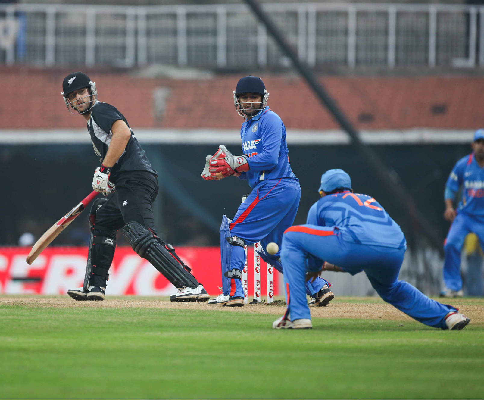 Daniel Vettori edges the ball to the slips as Parthiv Patel looks on, India Vs New zealand One day International, 10 December 2010